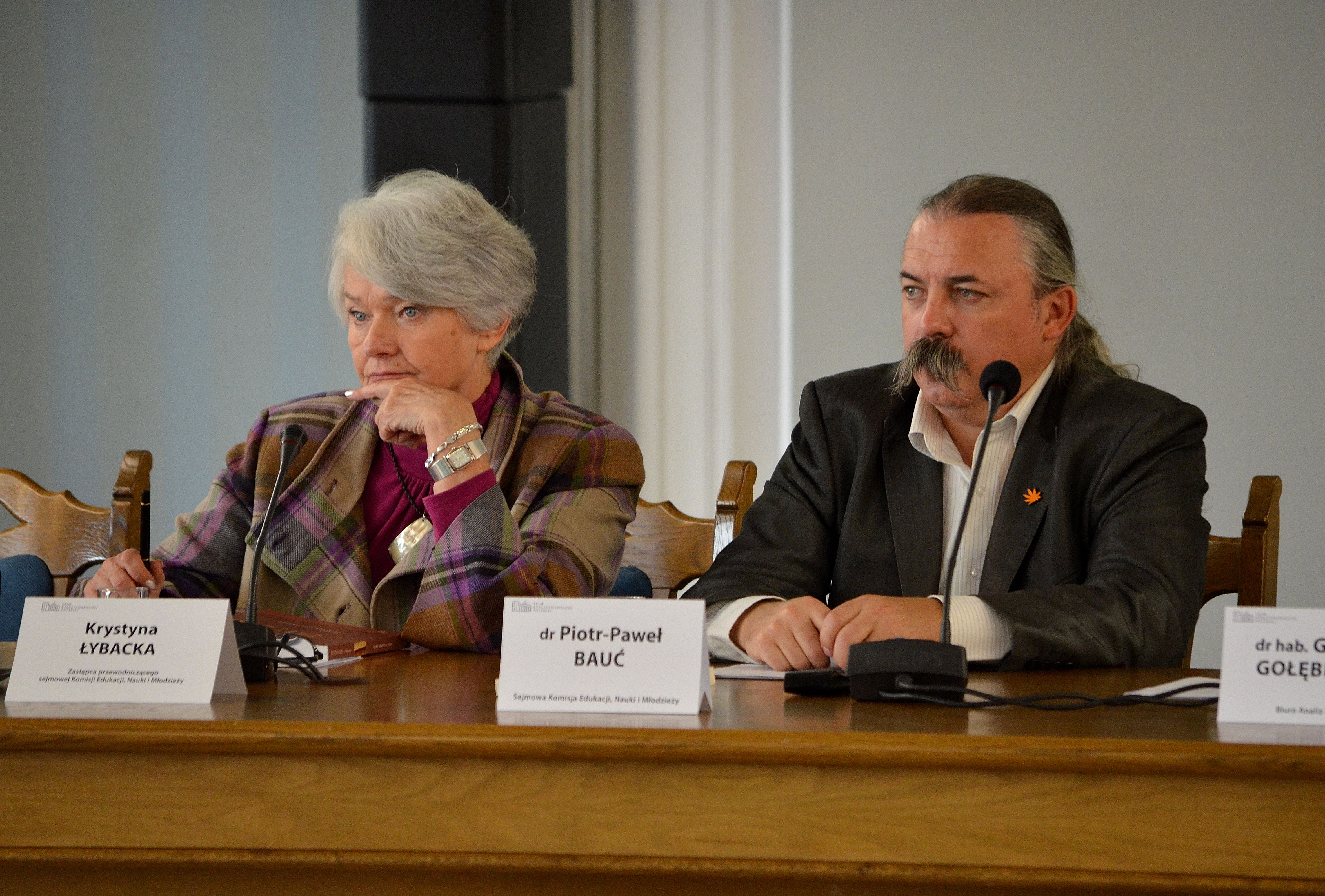 Krystyna Łybacka and Piotr Bauć. Conference "Science and higher education – challenges of contemporary times" in the Polish Sejm